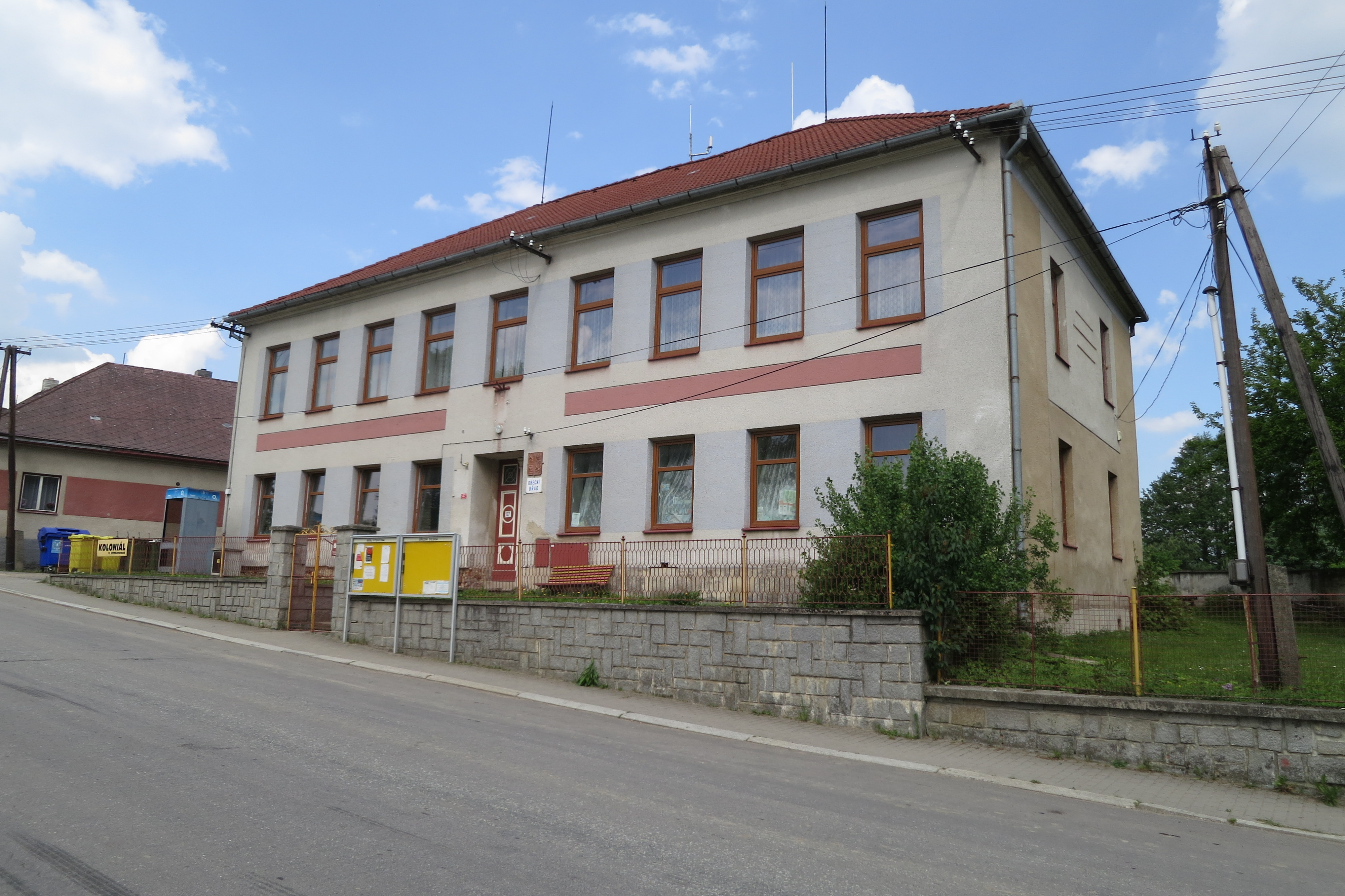 Municipal office in Krasonice, Jihlava District.